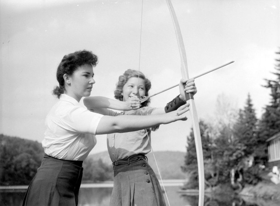 An instructor teaches archery to a camper in the summer camp "Wooden Acres".